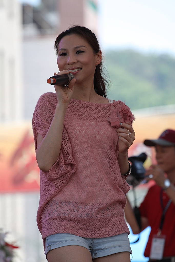 Freya Lin is a Taiwanese pop singer. Her birth name was "Lin Fan".中文（中国大陆）: Freya Lin是一位台湾流行音乐歌手。她本名是叫「林凡」。